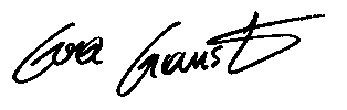 Signature of austrian ski jumper, Eva Ganster.